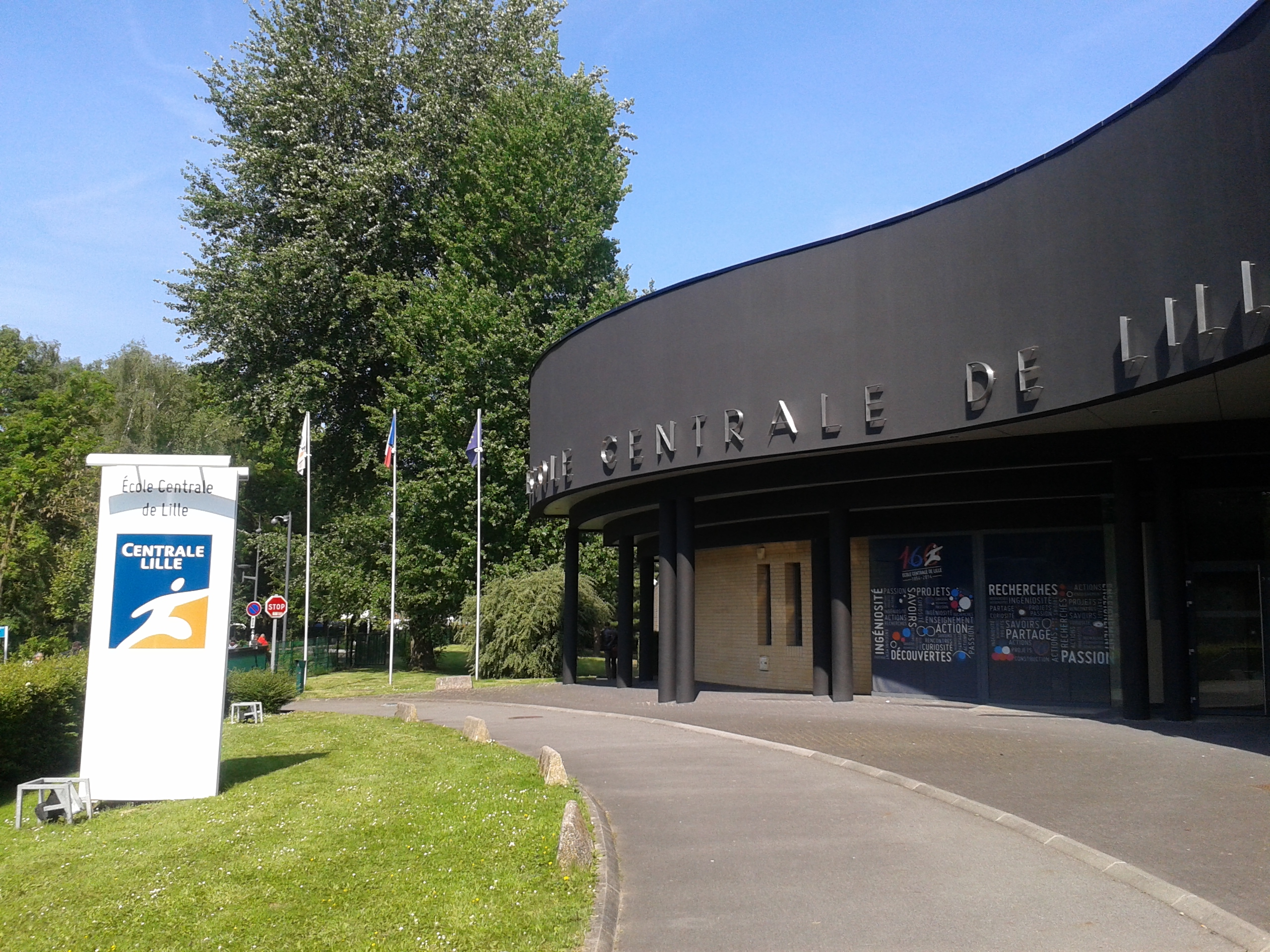 Entrance hall of École Centrale de Lille